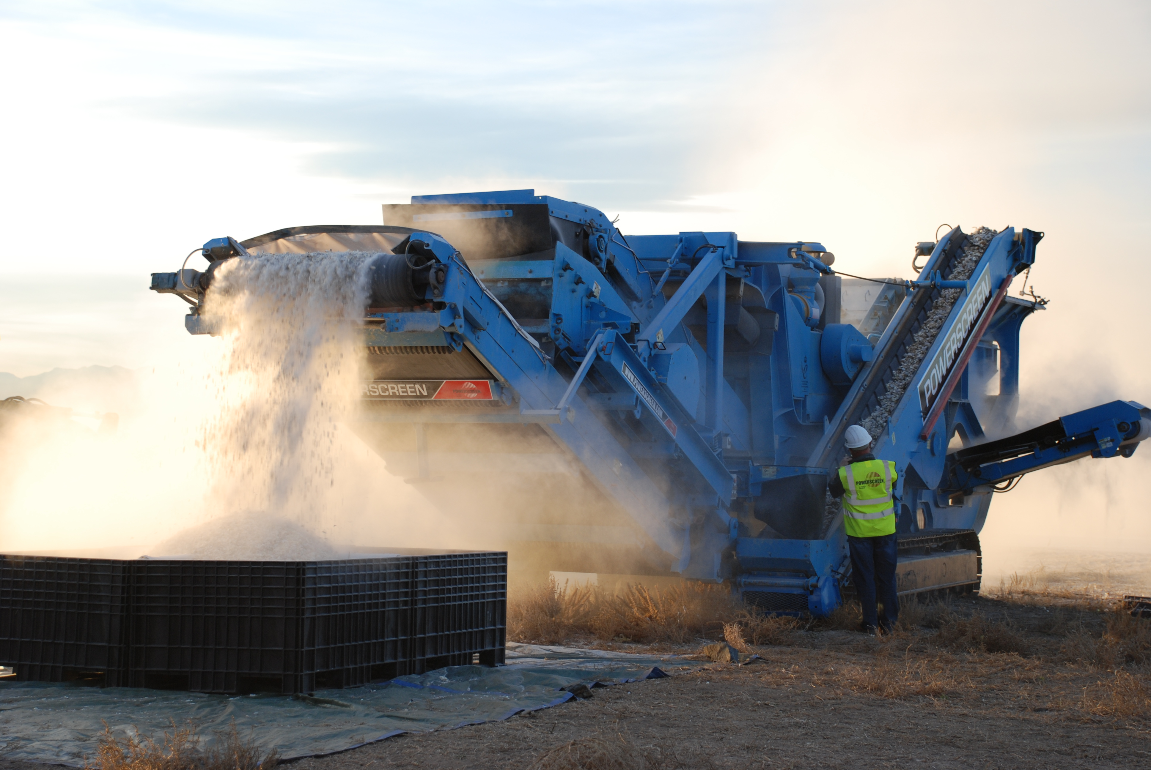 Photo Credit: Kate Miyamoto / USFWS USFWS ivory crush at Rocky Mountain Arsenal National Wildlife Refuge on November 14, 2013